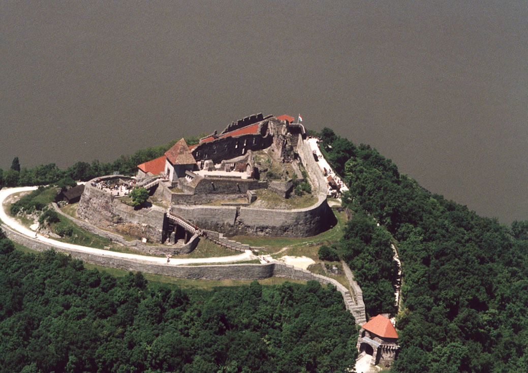 Mountain Fortress - Visegrád - Hungary - Europe